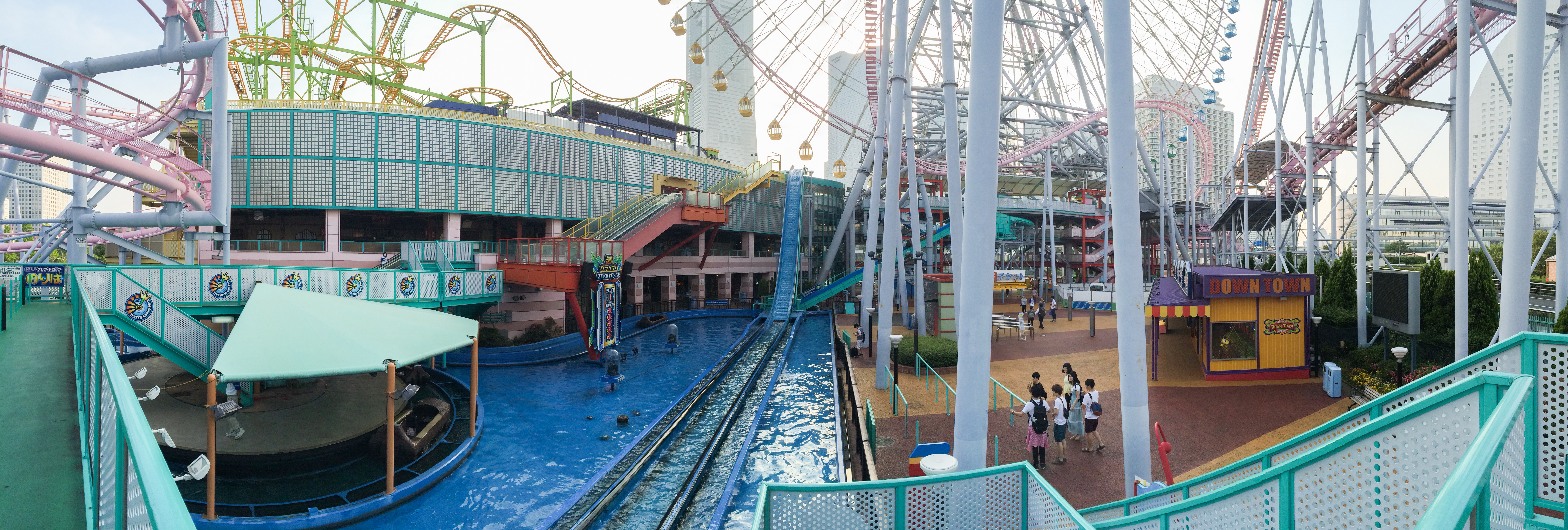 Yokohama Cosmo World Cosmo Fantasia